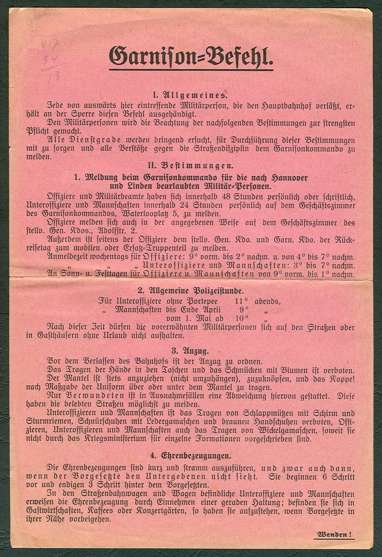 Garrison order